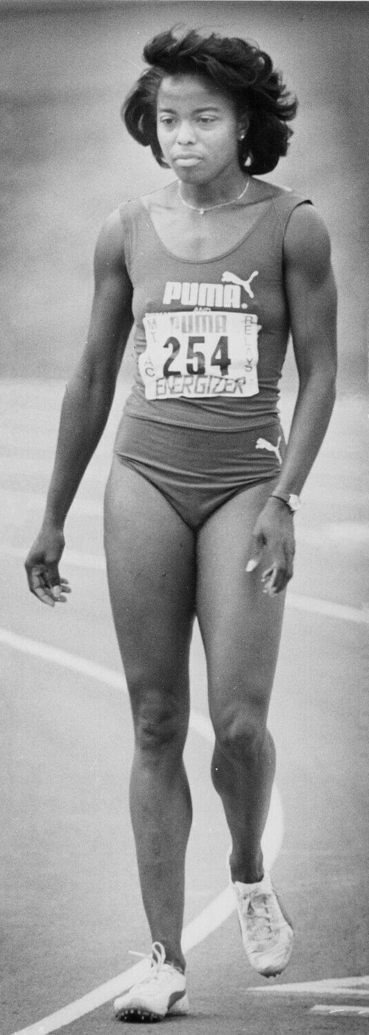 1984 Evelyn Ashford Olympic Track Star Gold Medal Winner Original Press Photo